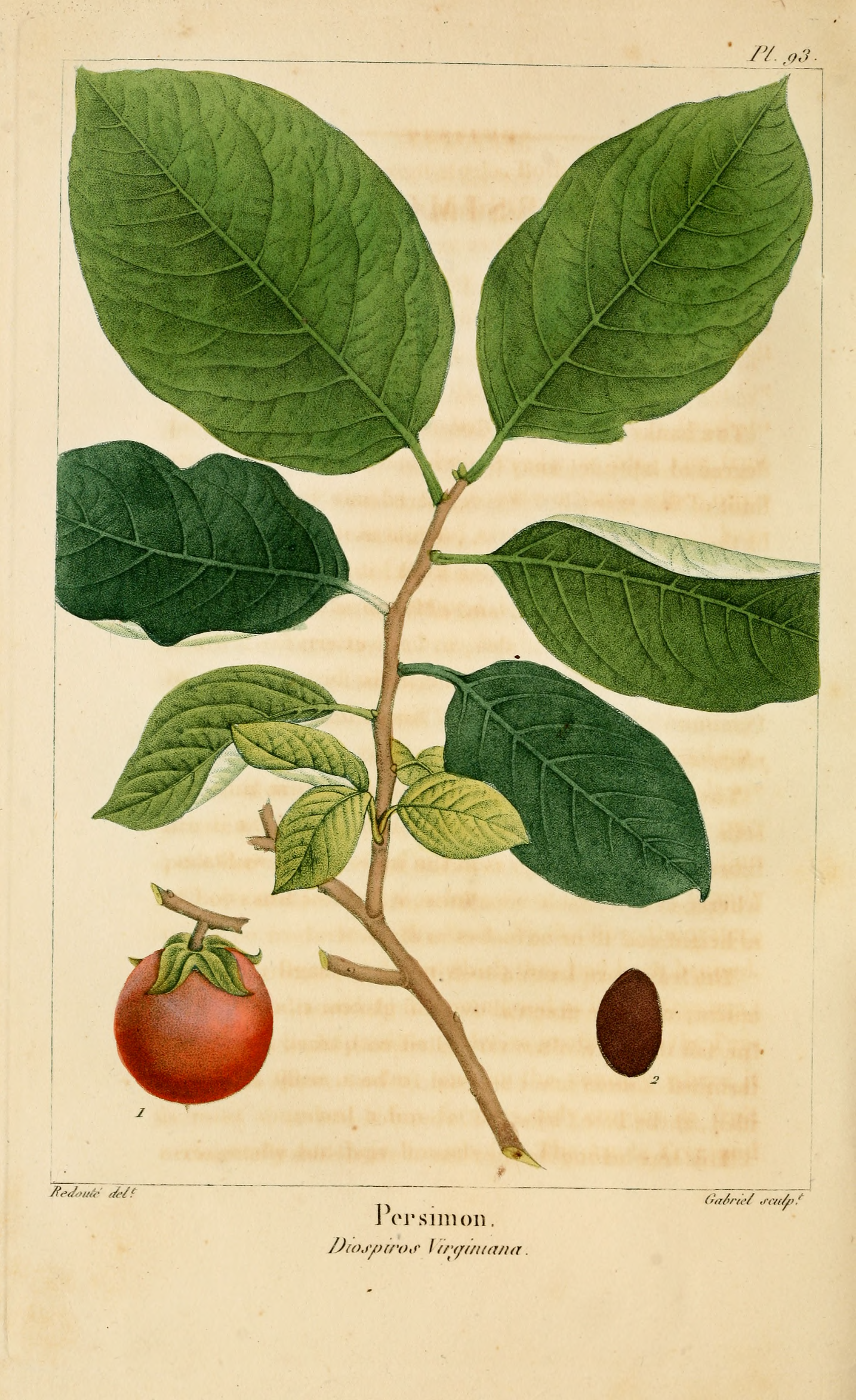 Plate from The North American Sylva